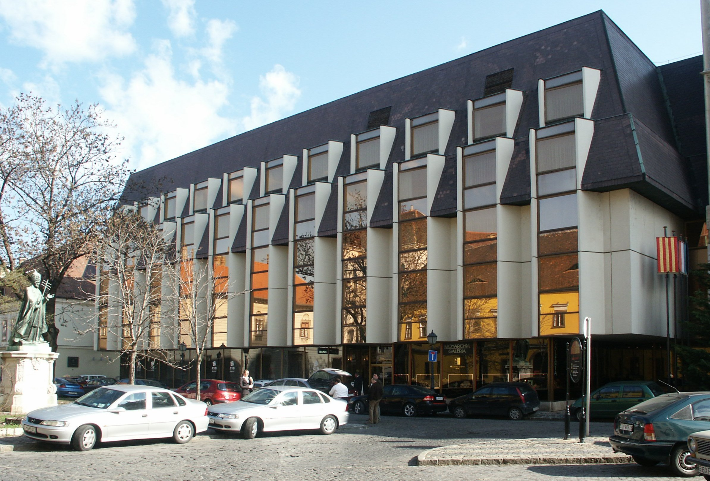 Budapest, Hilton Hotel. Adaption of a modern building to historic environments by reflecting the surrounding buildings in its windows by using highly reflective glass.